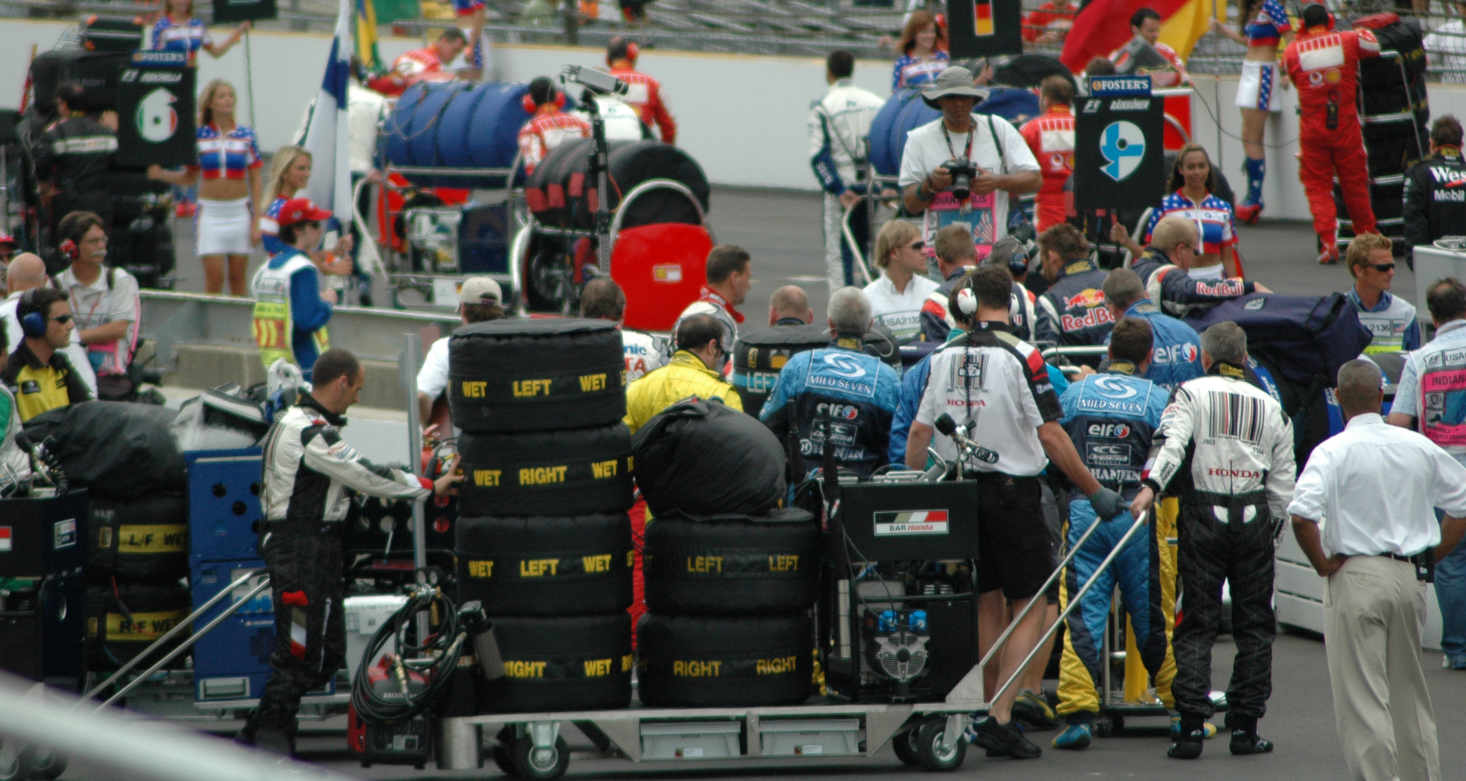 Tyre carts being pushed onto the grid at the 2005 US Grand Prix